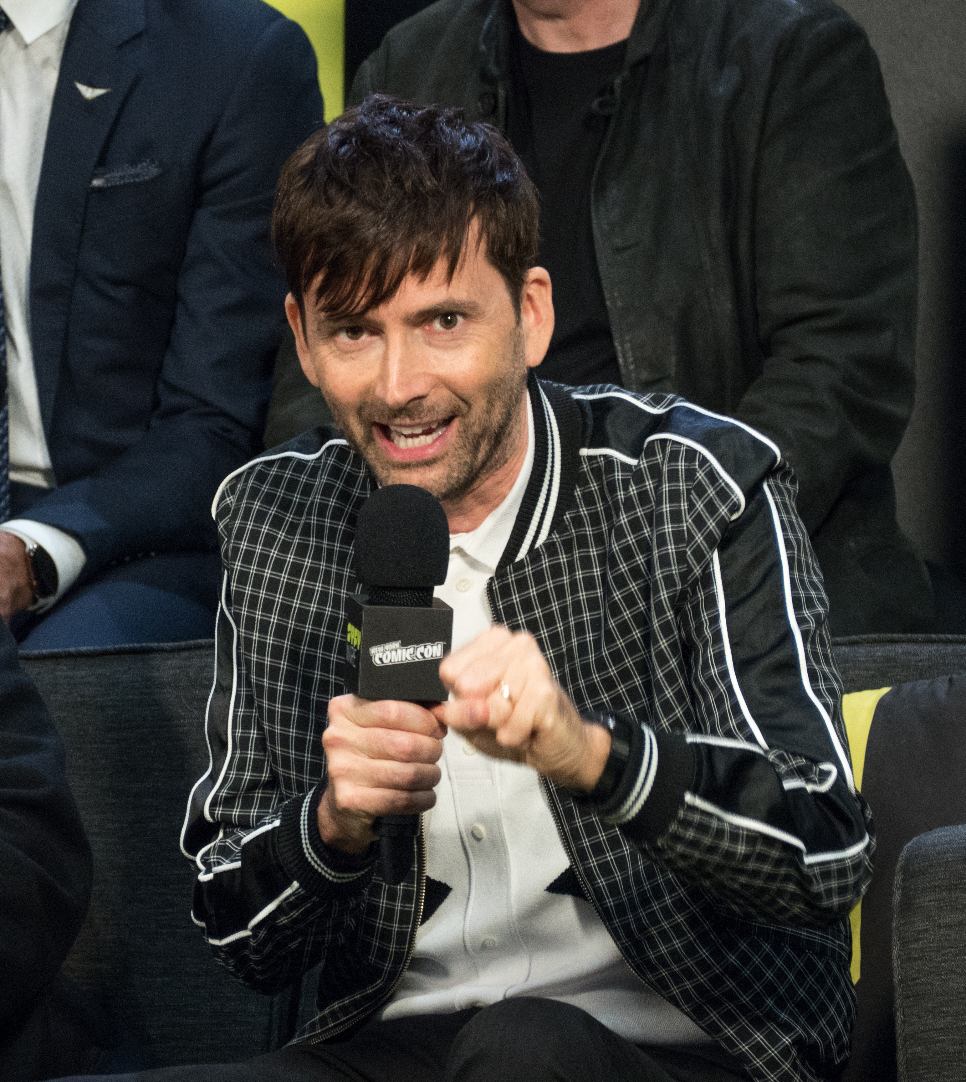 David Tennant on the Good Omens panel at New York Comic Con in October 2018.